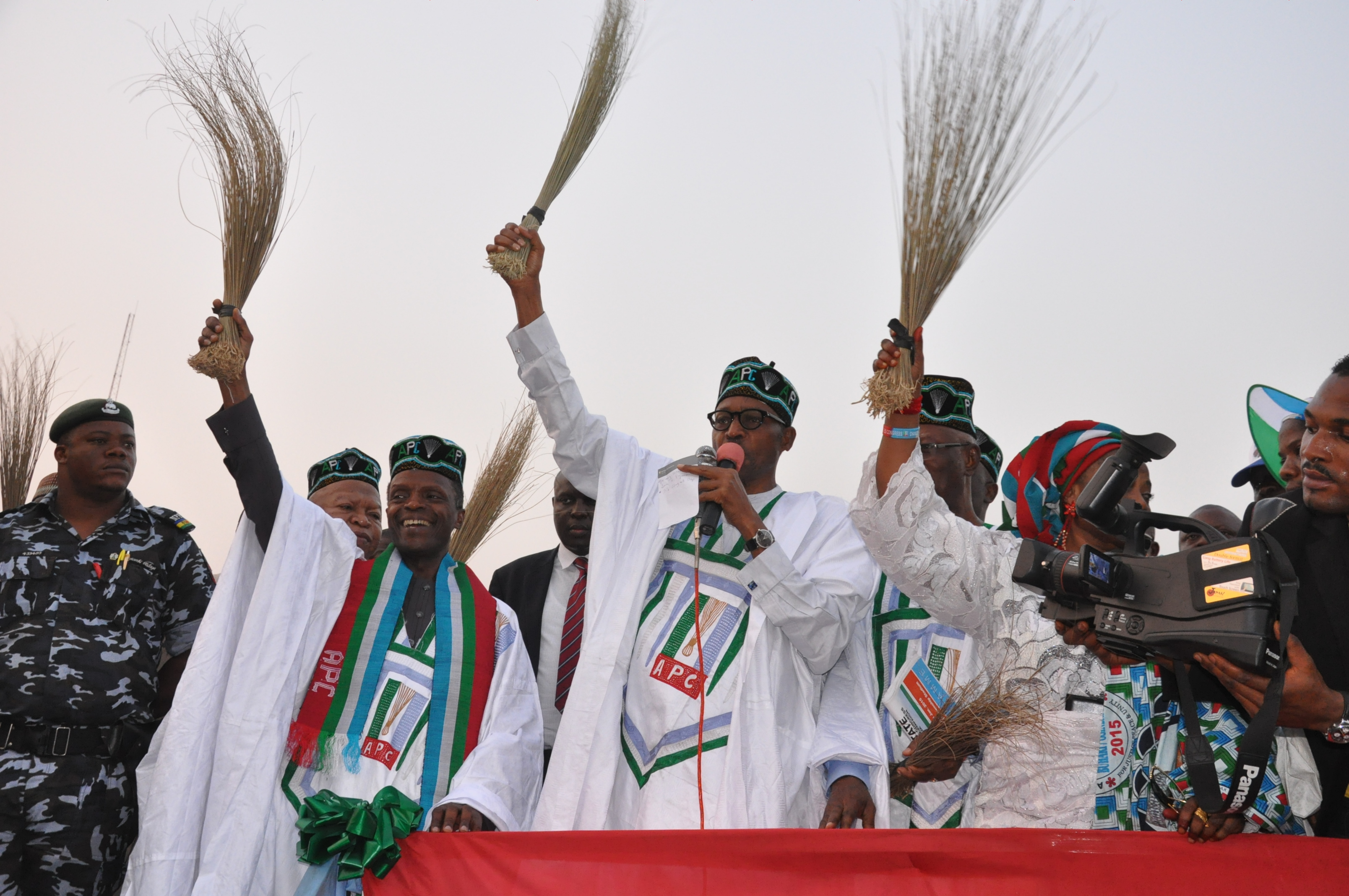 Buhari